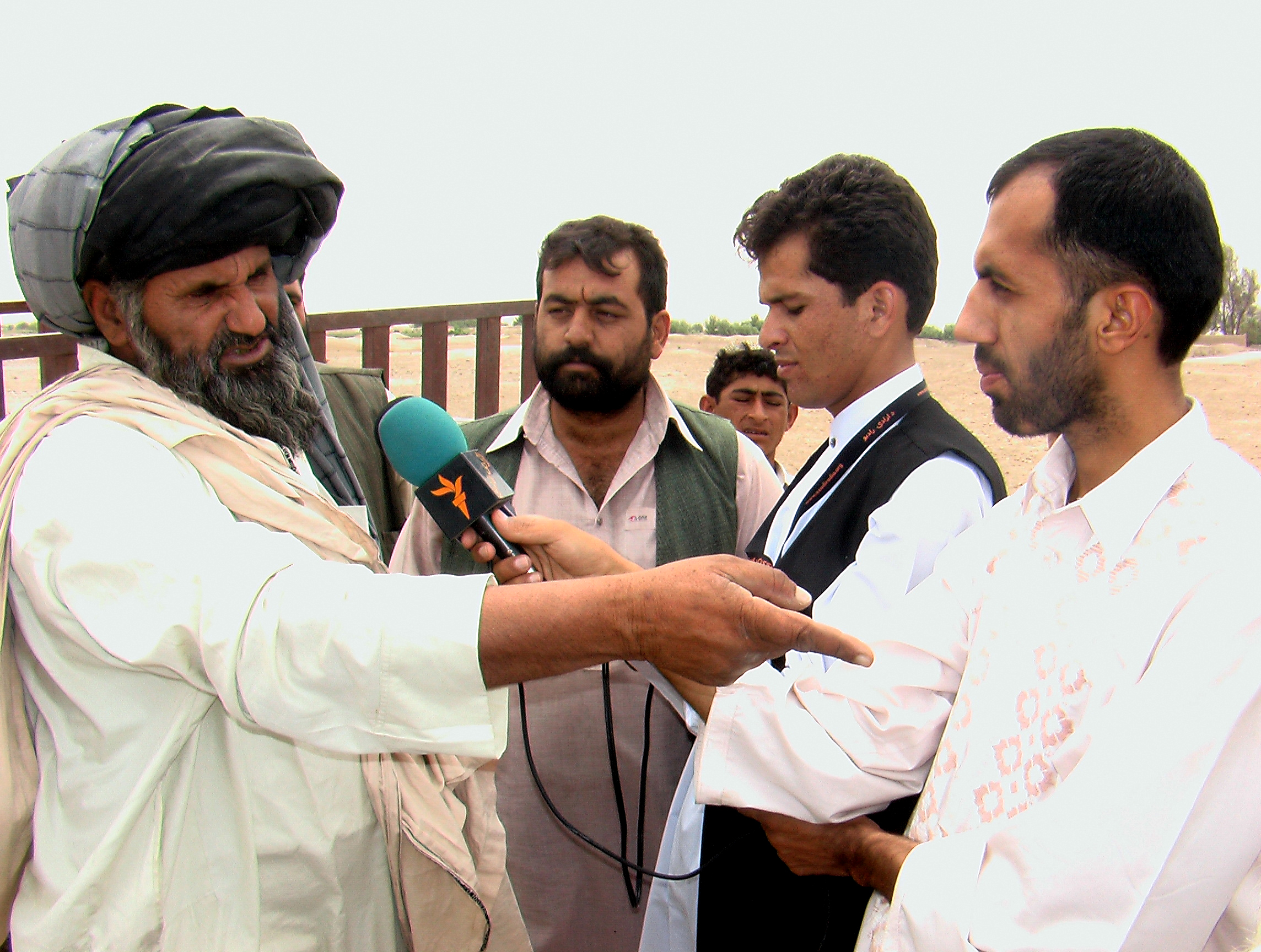 Salih Mohammad Salih, a reporter for Radio Azadi (RFE/RL's Afghan Service) interviews a citizen in Helmand Province, Afghanistan.